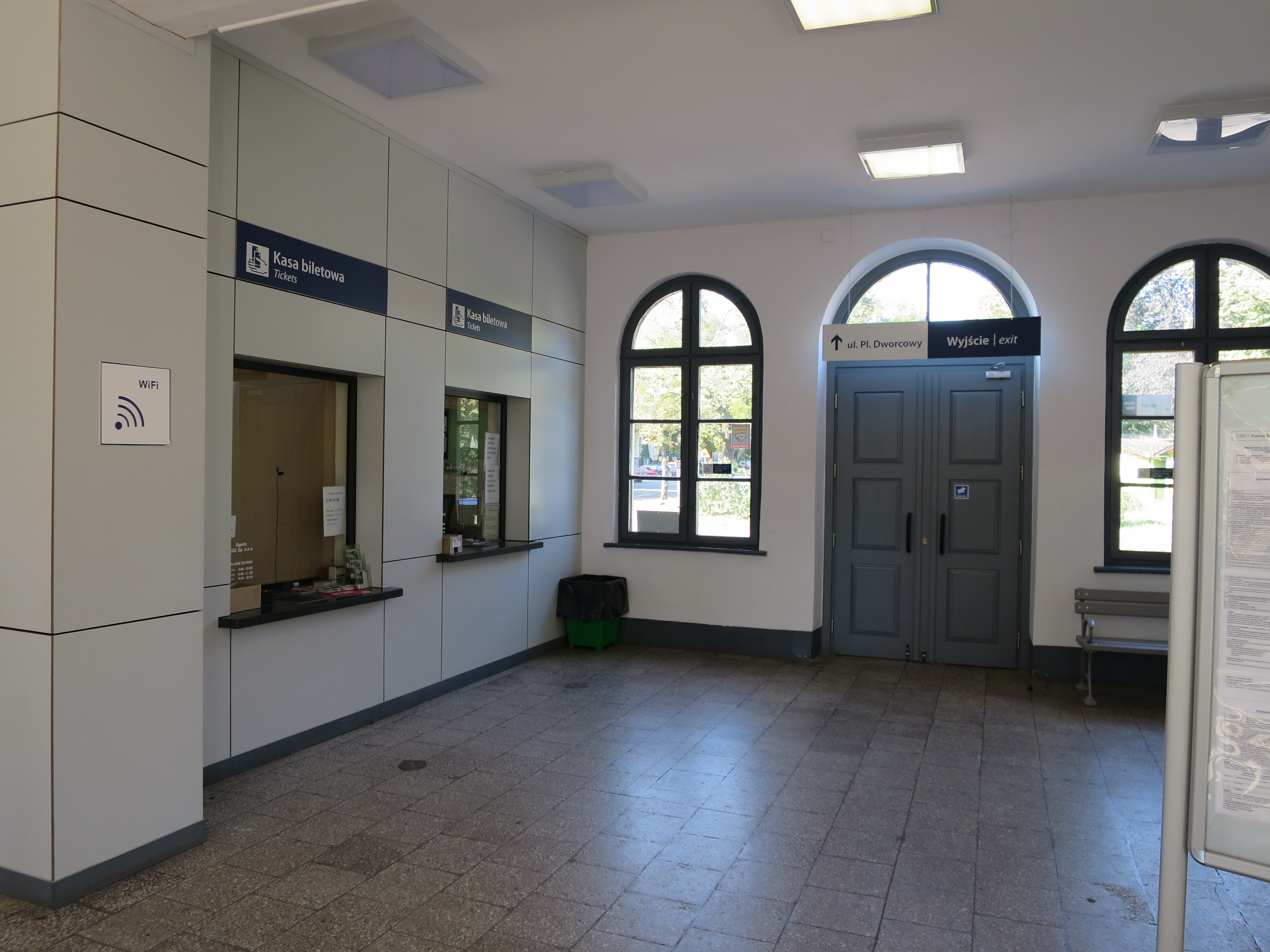 Gdańsk Oliwa This photo was taken during Railway Wikiexpedition 2015 set up by Wikimedia Polska Association in cooperation with Fundacja Grupy PKP. You can see all photographs in category Wikiekspedycja kolejowa 2015.